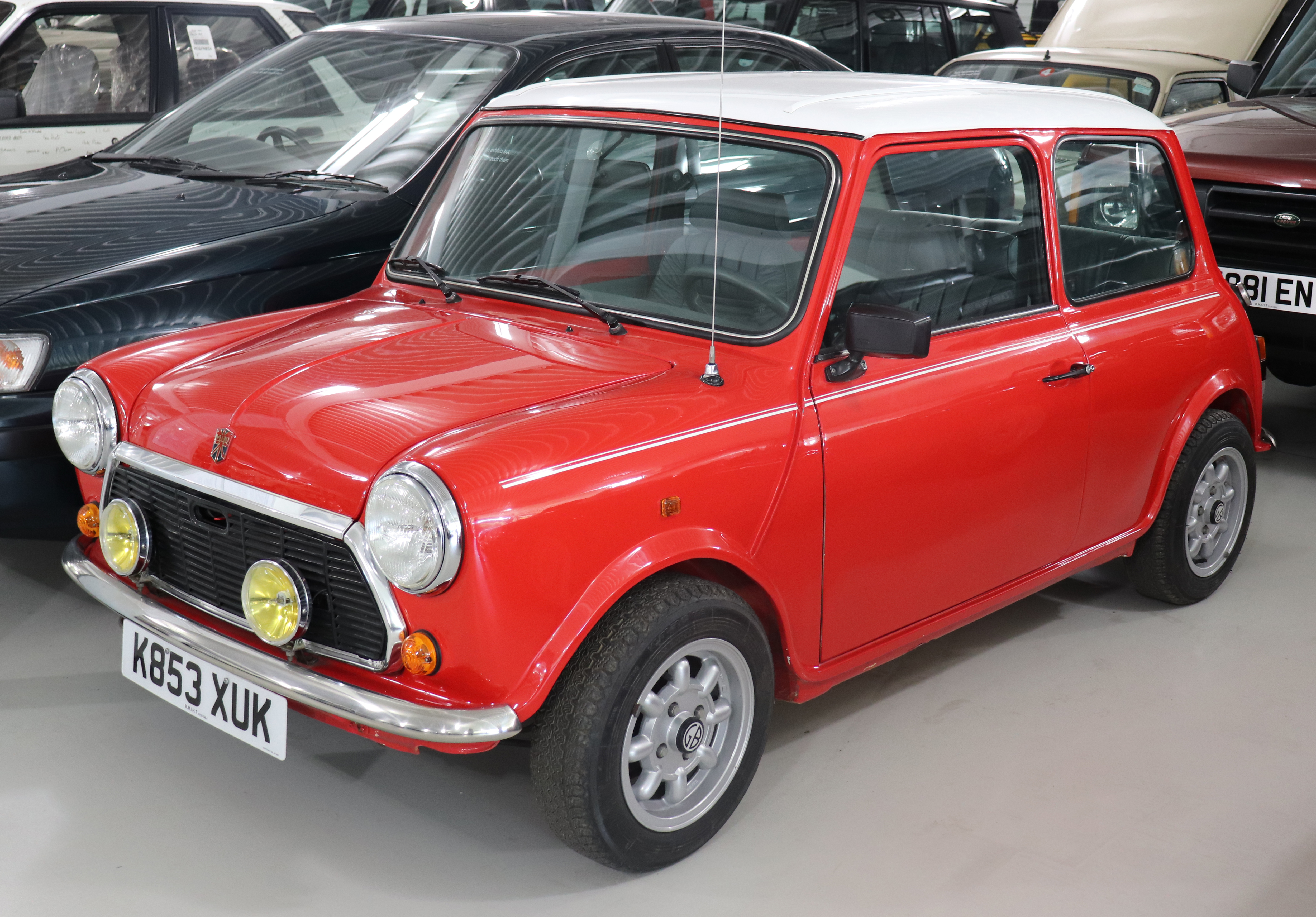 1992 Mini Cord FA 1.0 Front Taken at the British Motor Museum, Gaydon